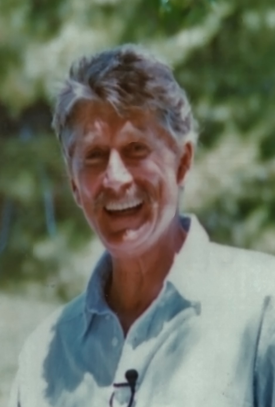 Actor Alex Cord on location (1993) performing the voice-over and on-camera work for the public television special, The Paddlefish: An American Treasure.